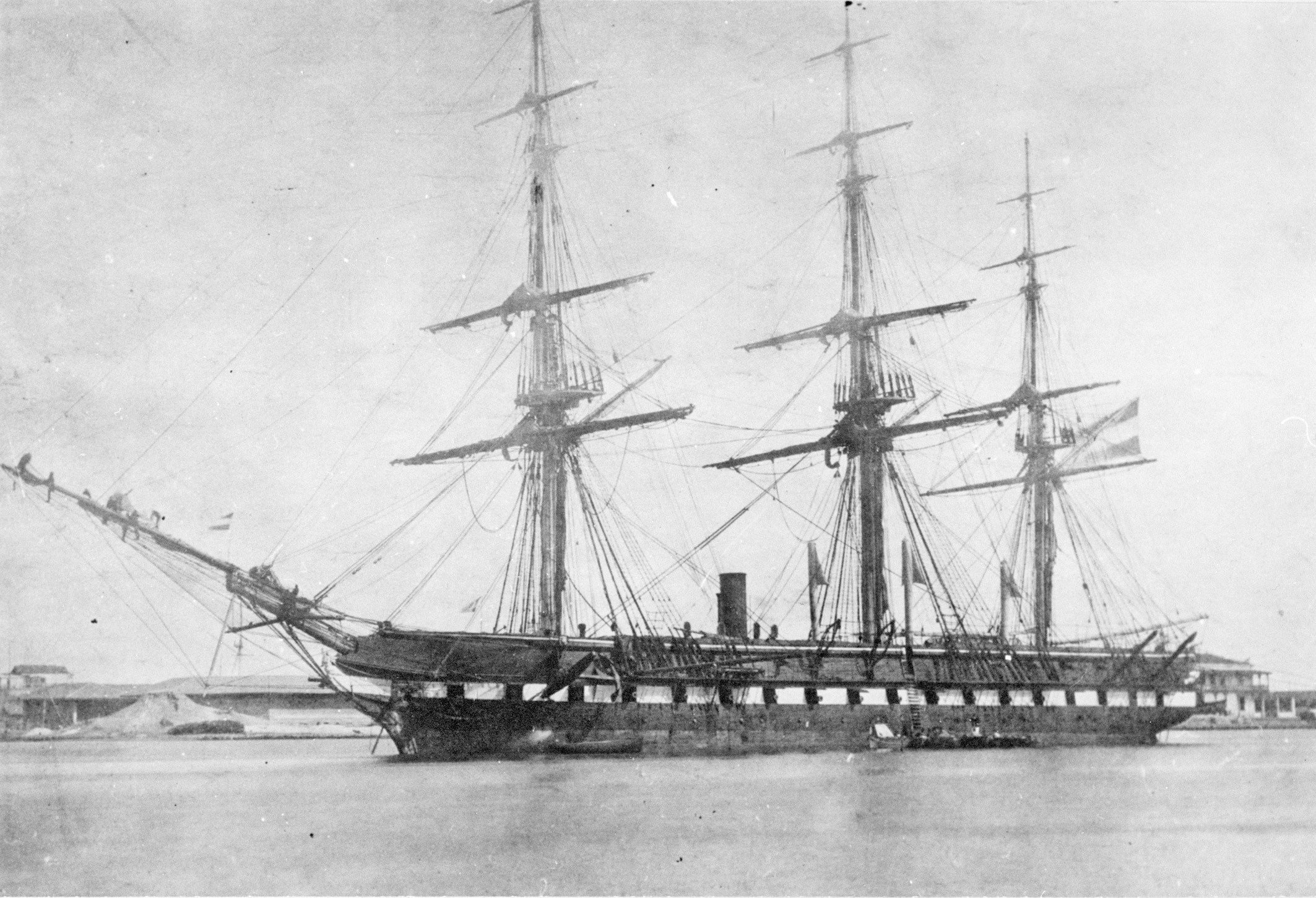 Photograph of the Dutch frigate with auxiliary steam power Zeeland (1859-1883)